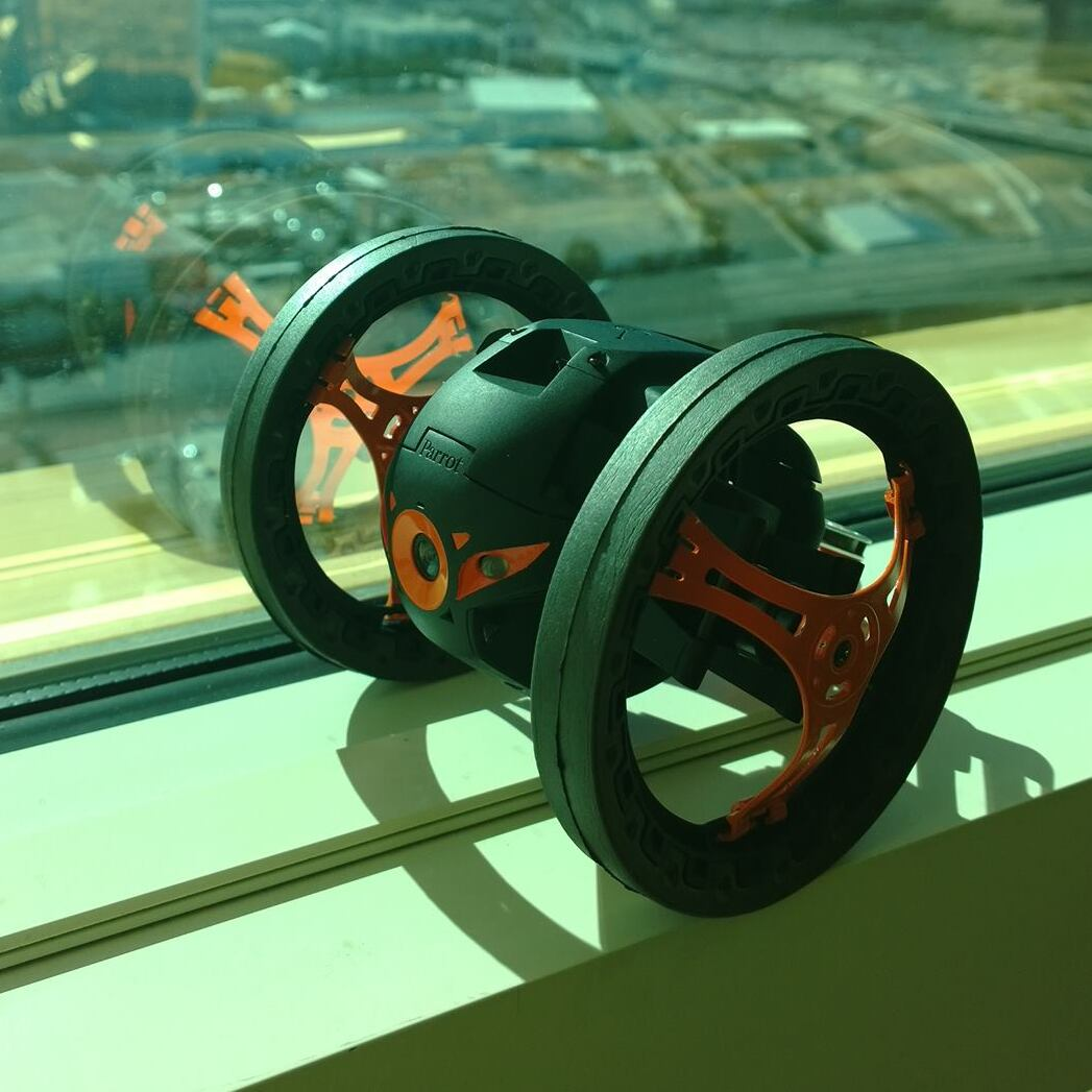 Parrot Jumping Sumo Wi-Fi robotic toy. Shot in Las Vegas, NV.